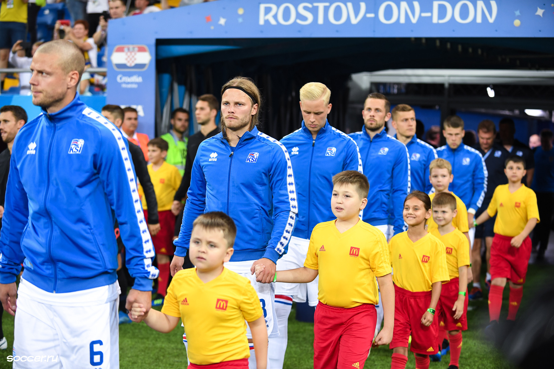 Iceland vs Croatia match